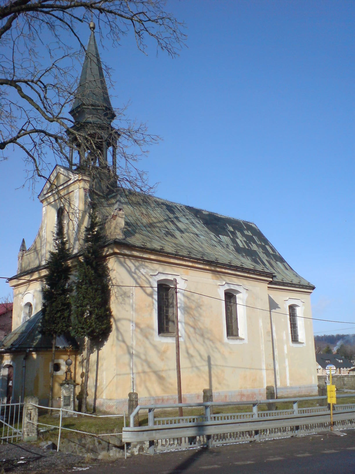 Orthodox Church of St. Mary Magdalene, Frýdlant